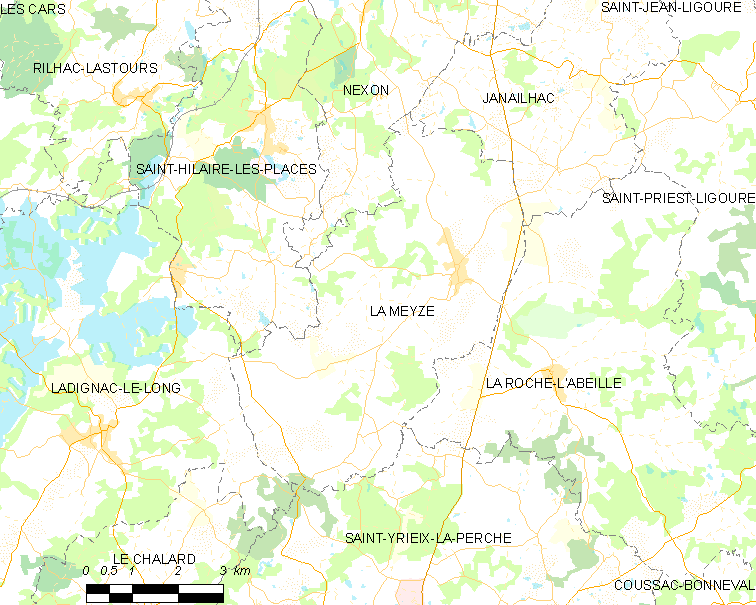 Map of French municipality La Meyze